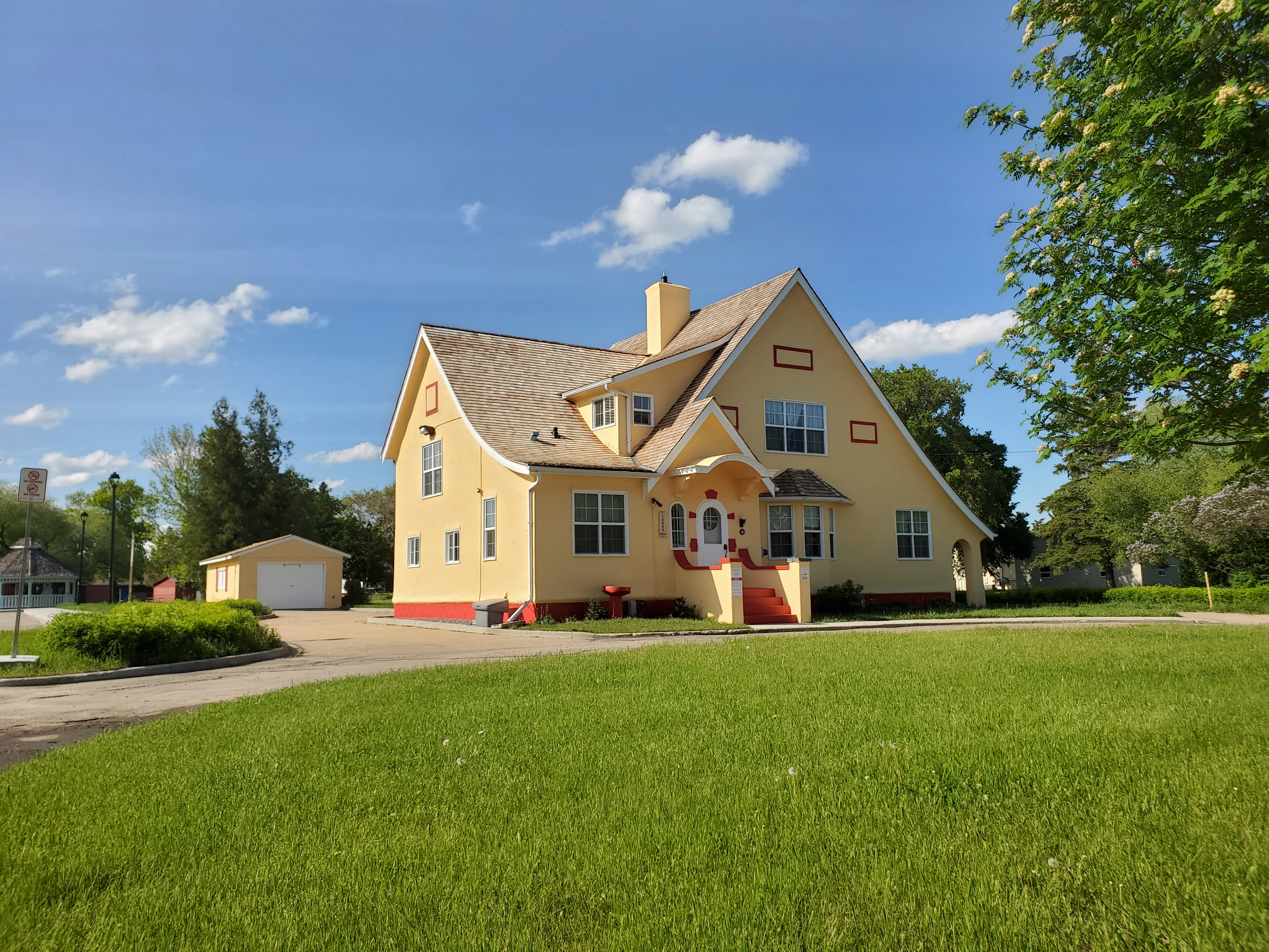 The Fort Saskatchewan Wardens House in June 2020, shortly after being repainted to its original appearance